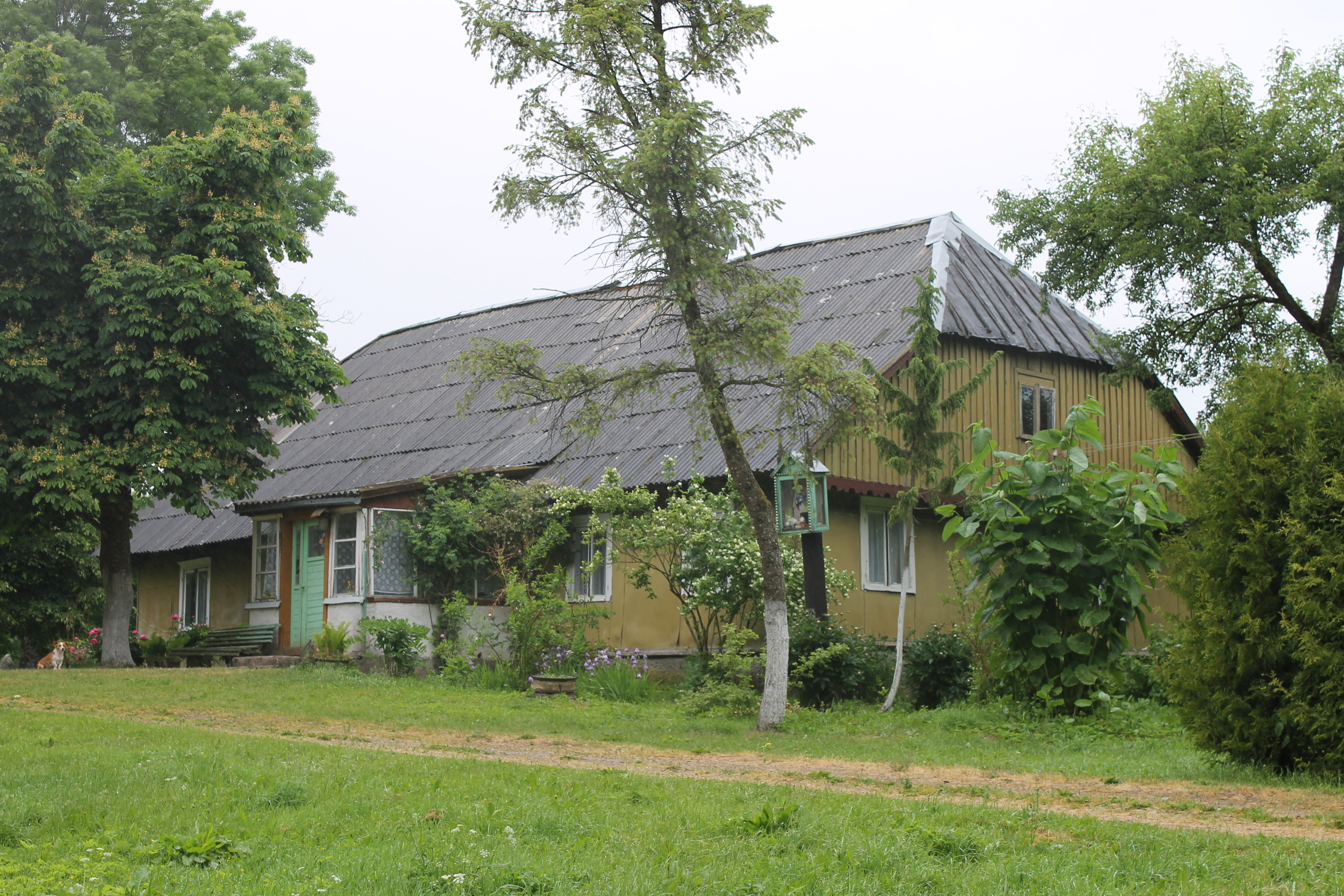 Alkas, Kretinga district, LithuaniaLietuvių: Nomgaudžių namas, Alko kaimas, Kretingos rajonas, Lietuva